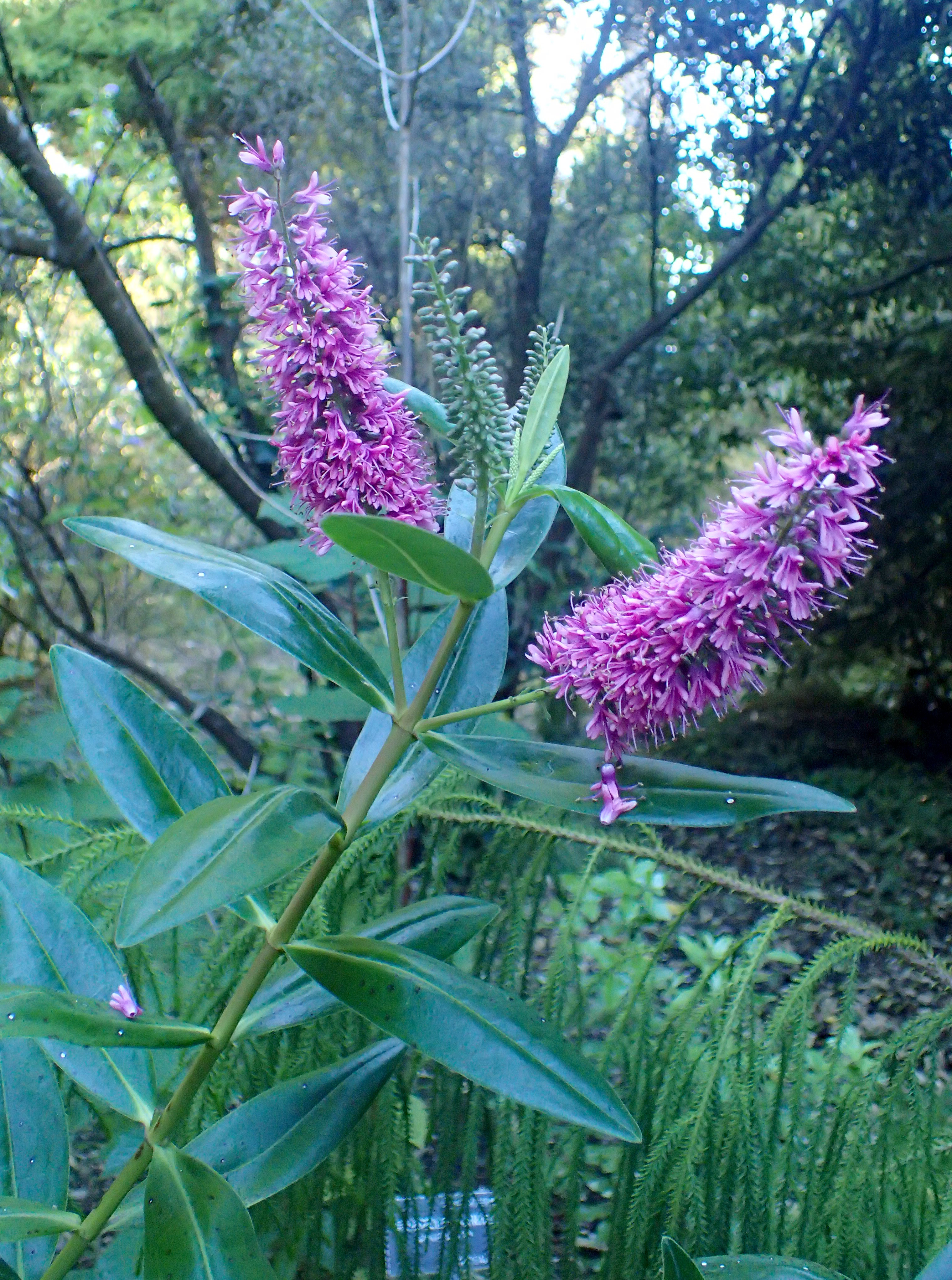 Veronica speciosa in the San Francisco Botanical Garden